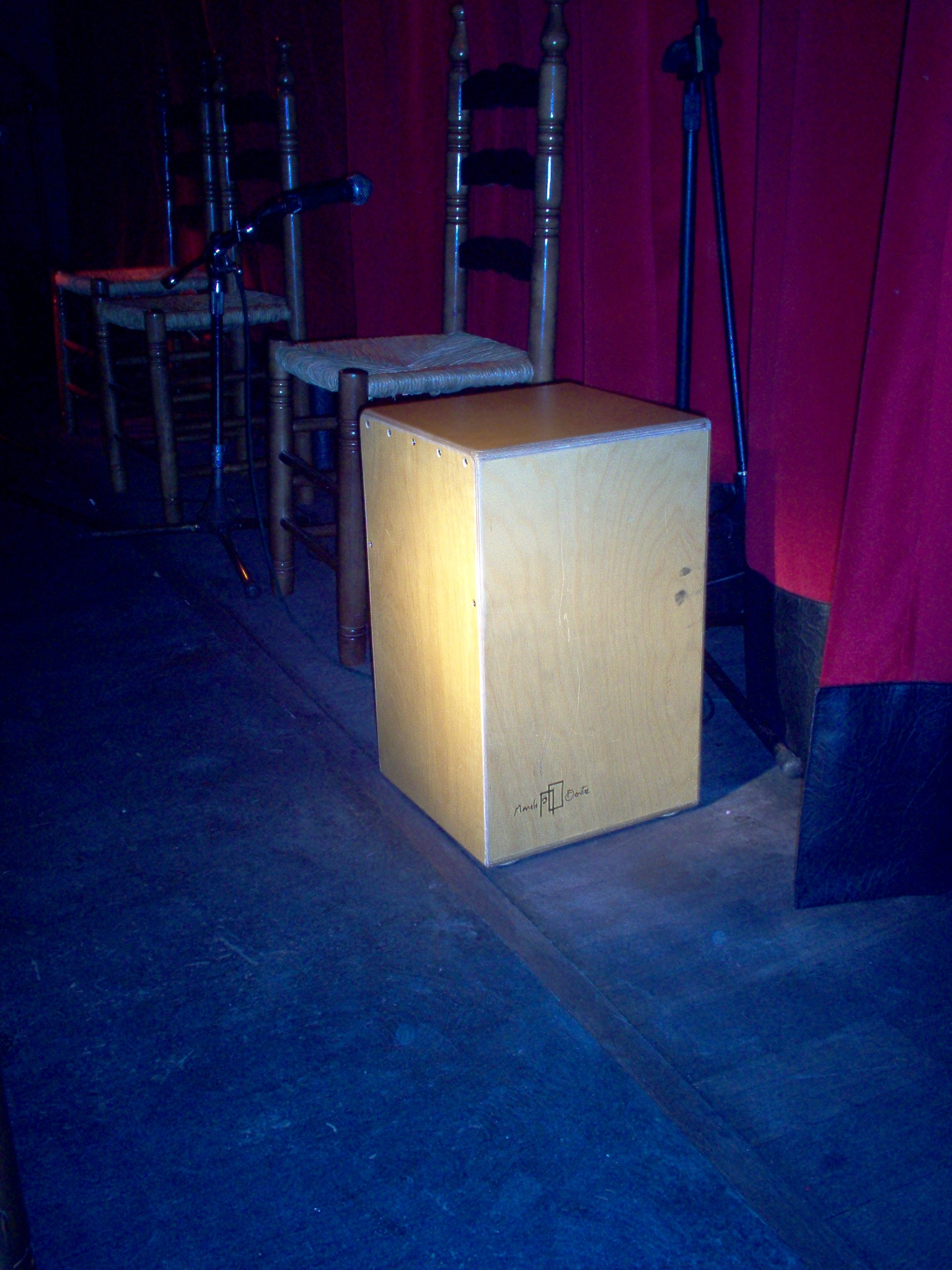 Photo I took in a flamenco Show in Barcelona of a Cajon, music instrument.